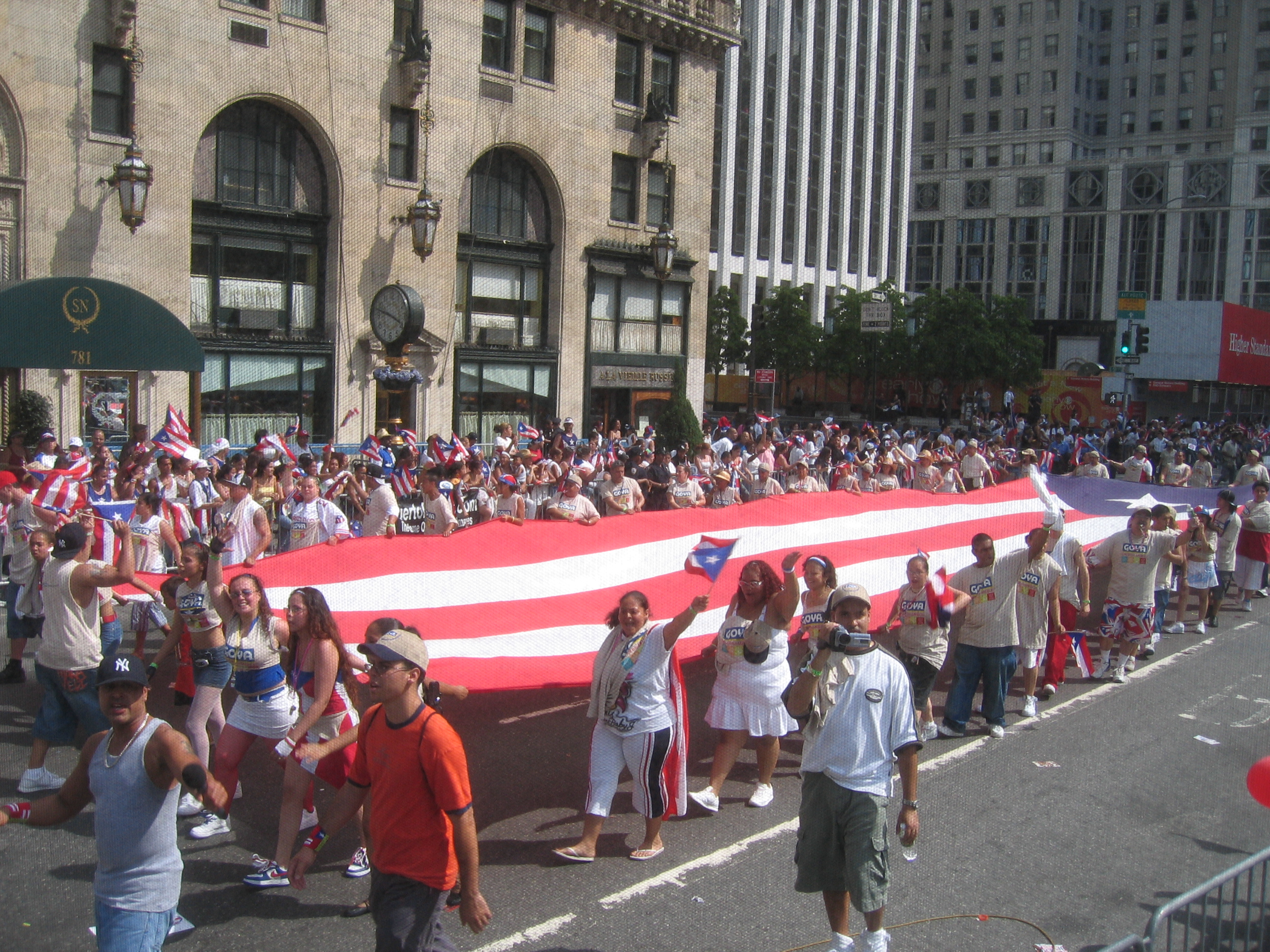 Author: Angelo Falcon